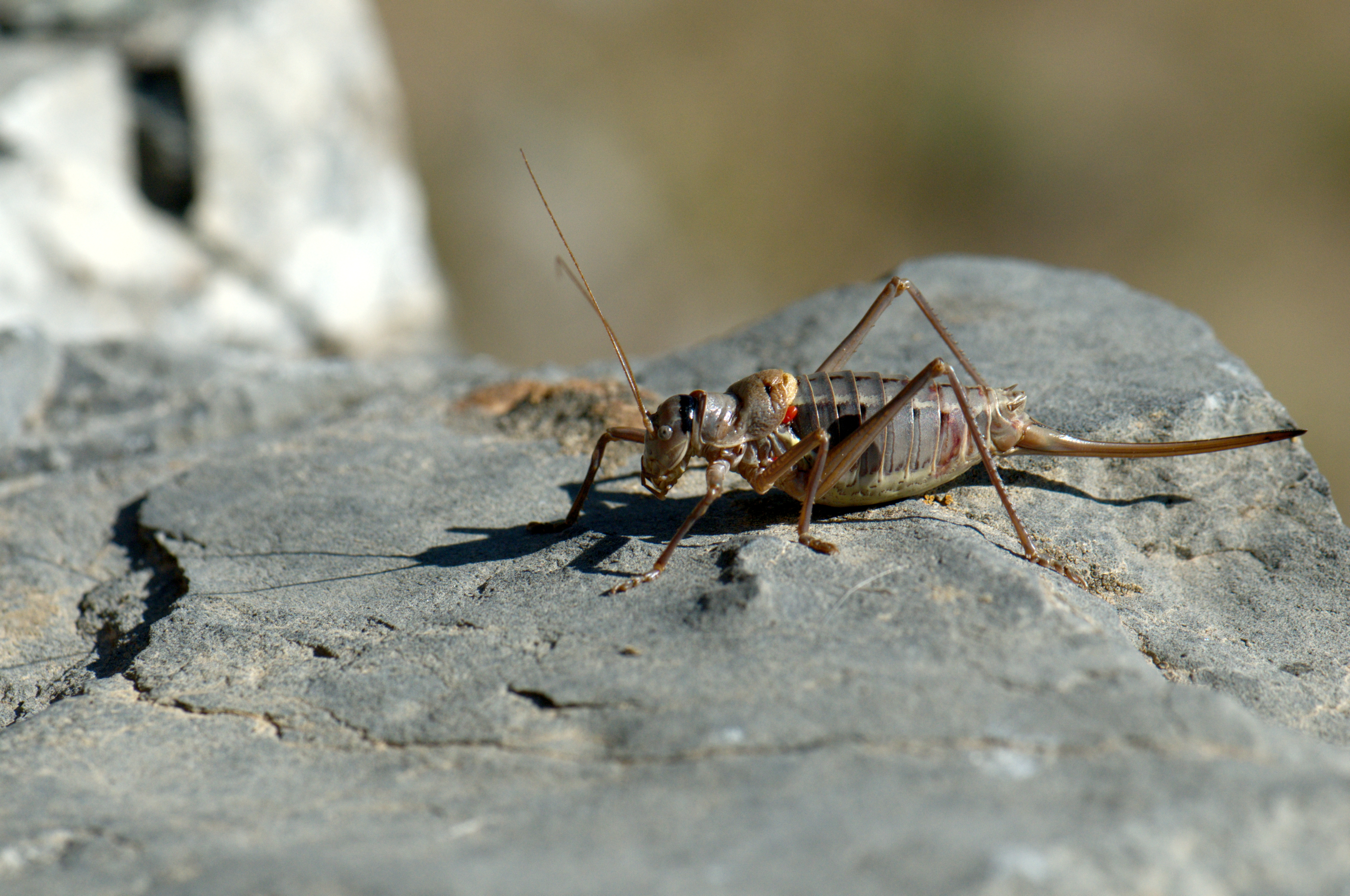 Ephippiger terrestris terrestris South of France, near Valberg, altitude 1700m 1,5 cm.